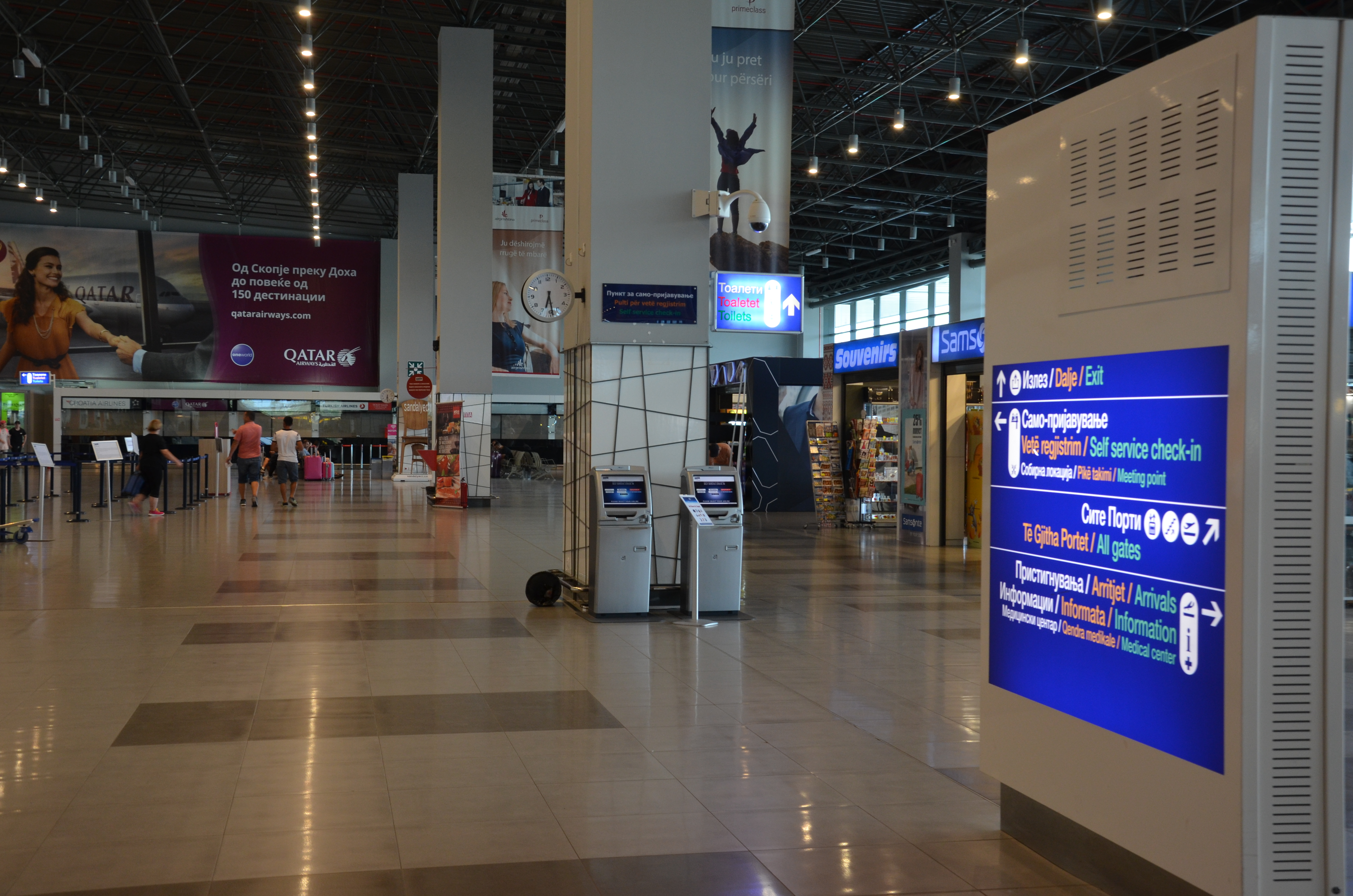 Skopje Airport, July 2017